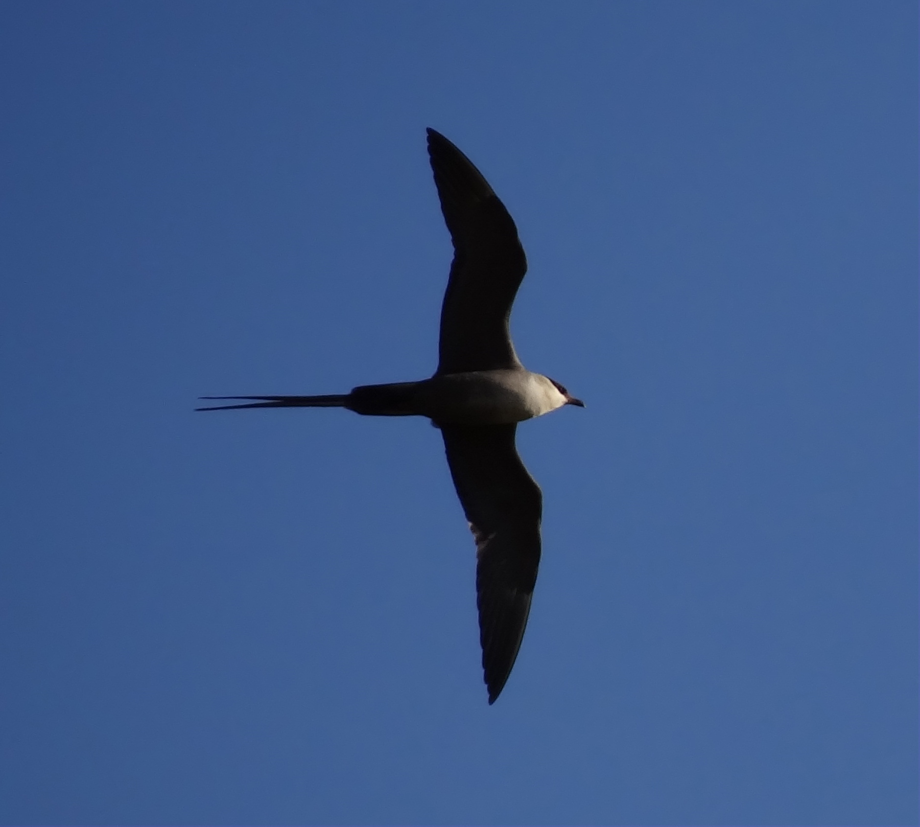 A Long-tailed Skua in flight, seen from directly below, showing clearly the long tail. Photographed in Northern Norway in summer.